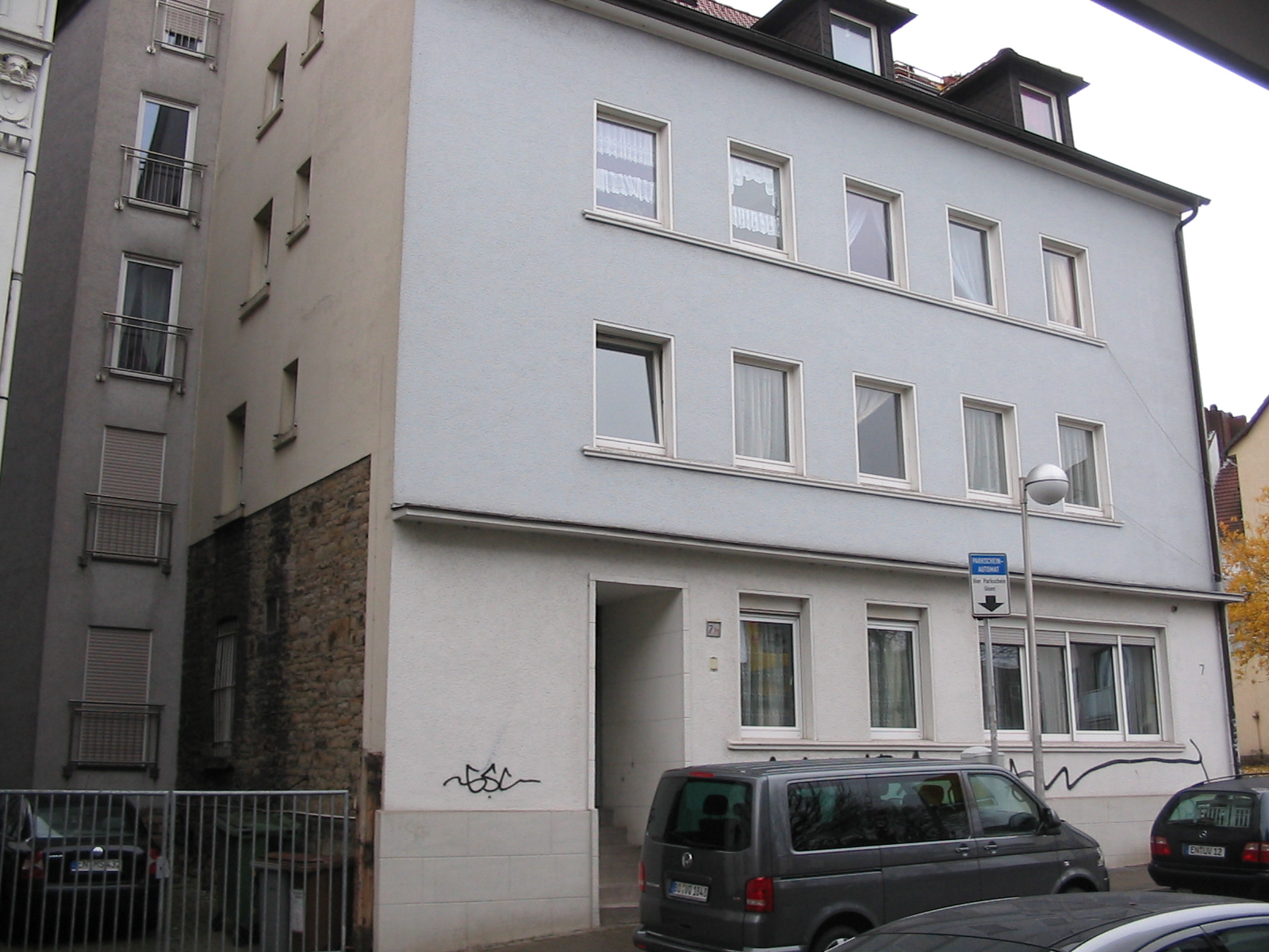 house Oberstraße 7 in Witten